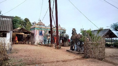 அரியதங்கம் கோயில்